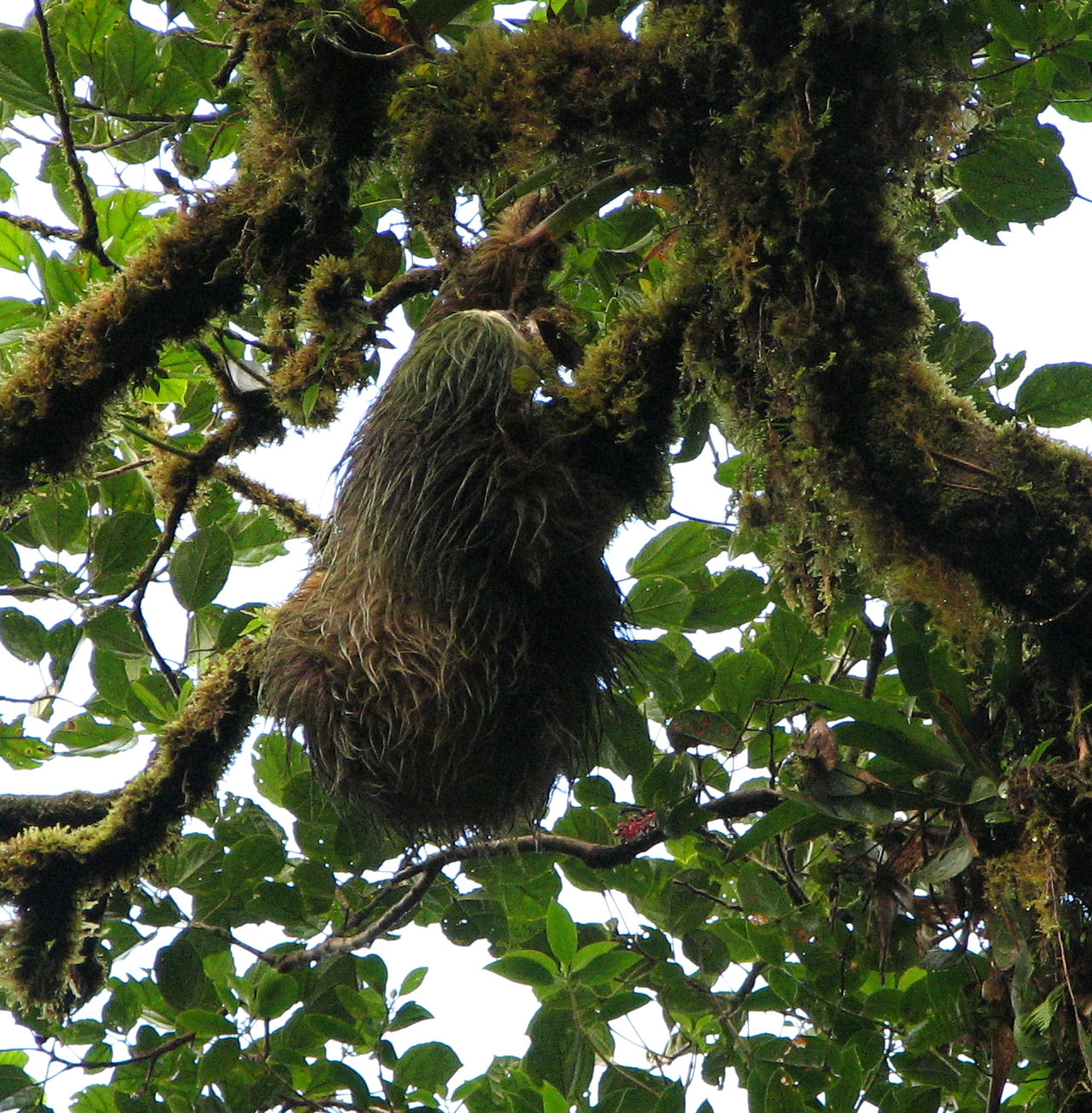 Hoffmann's Two-toed Sloth (Choloepus hoffmanni), Monteverde, Costa Rica